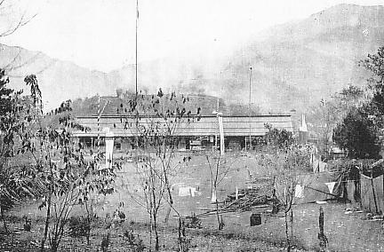 Musha Primary School(Han Chinese's School)